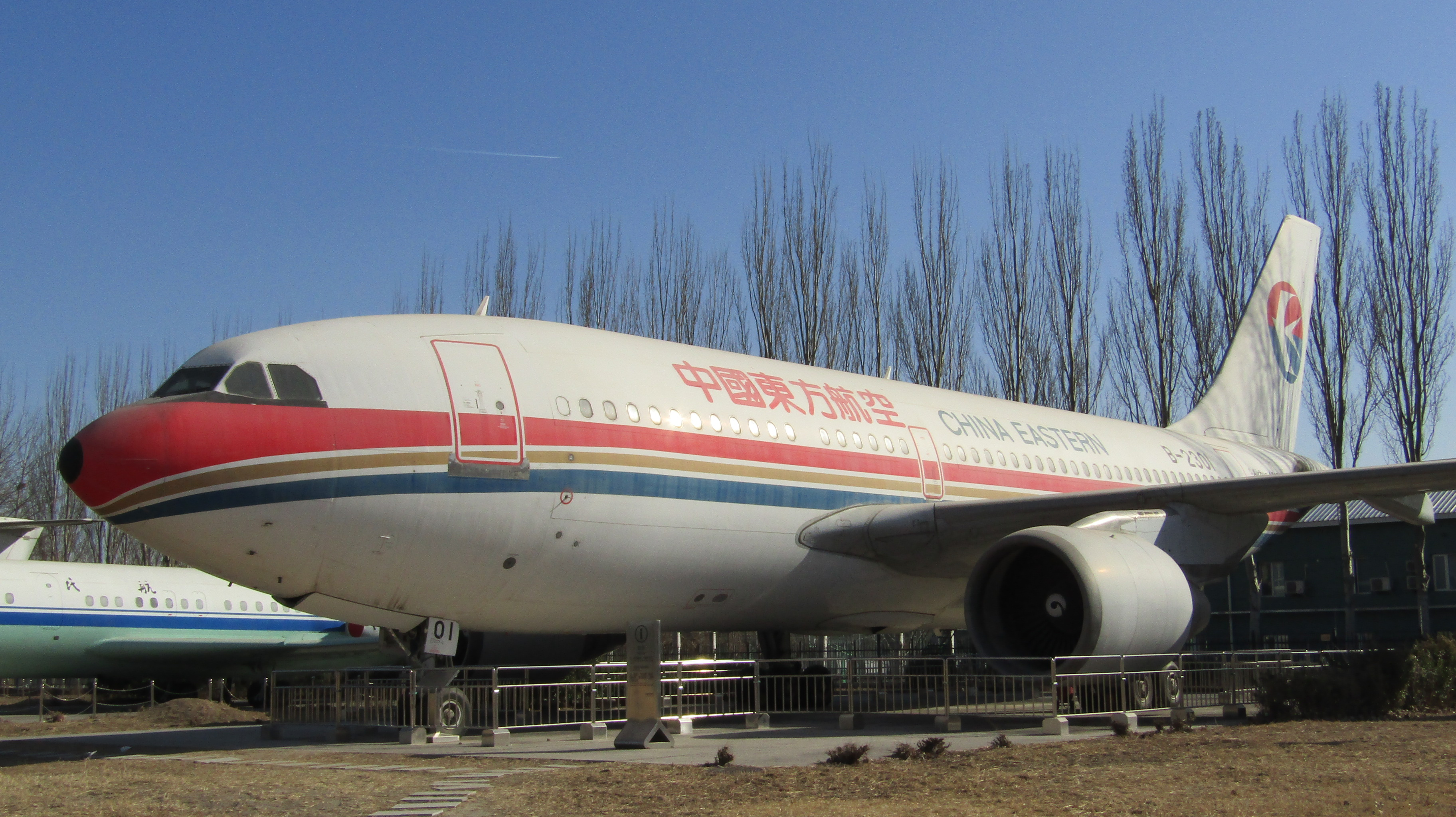 Airbus A310 of China Eastern Airlines, this aircraft is the first Airbus aircraft delivered to China.